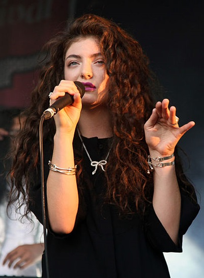 Lorde at the 2014 Sydney Laneway Festival